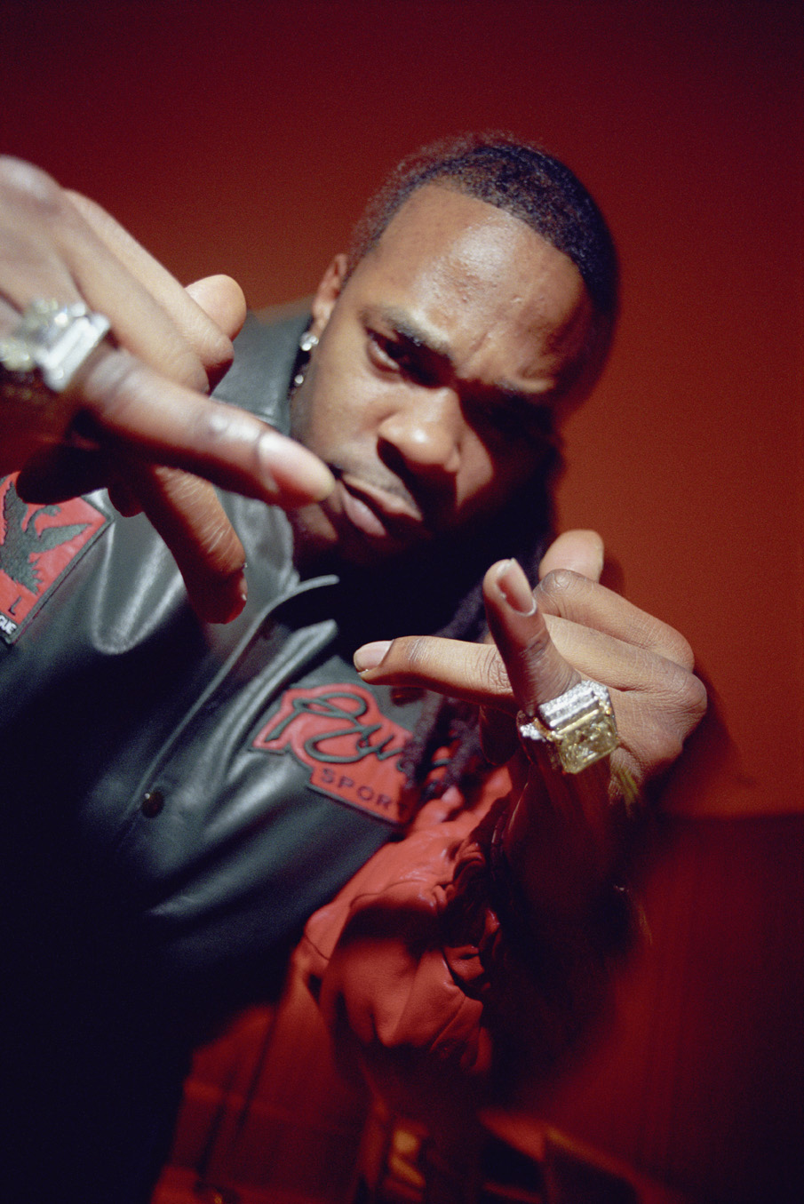 Busta Rhymes in Hamburg, Germany, 2002